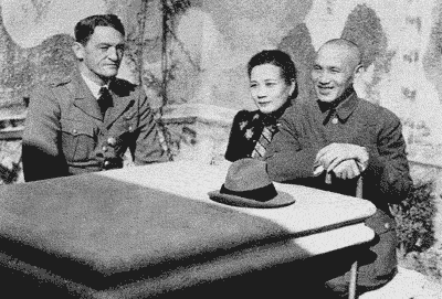 Claire L. Chennault with Madame Chiang Kai-shek and Generalissimo Chiang Kai-shek. In 1937, with China at war with Japan, he accepted an invitation by Madame Chiang Kai-shek, Secretary of the Chinese air force, to build the Chinese air force.